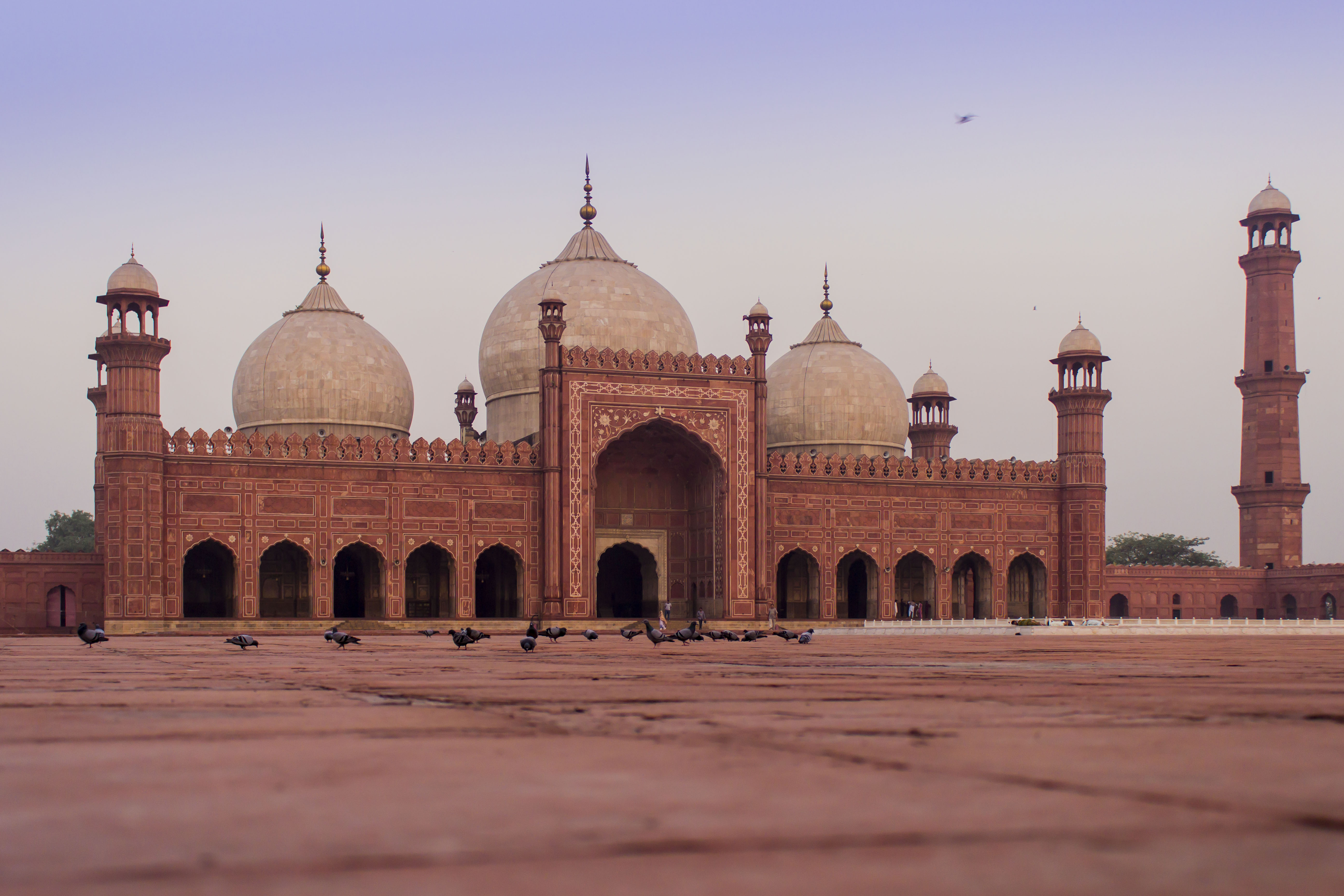 Badshahi Mosque with birds This is a photo of a monument in Pakistan identified as the PB-44